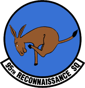 Emblem of the 95th Reconnaissance Squadron, a squadron of the United States Air Force